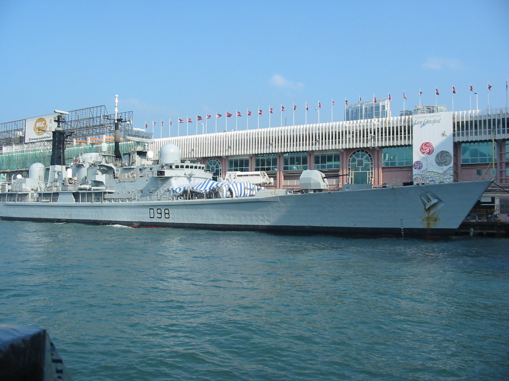 HMS York (D98) visits Hong Kong at September, 2005. Parked next to HarbourCity.